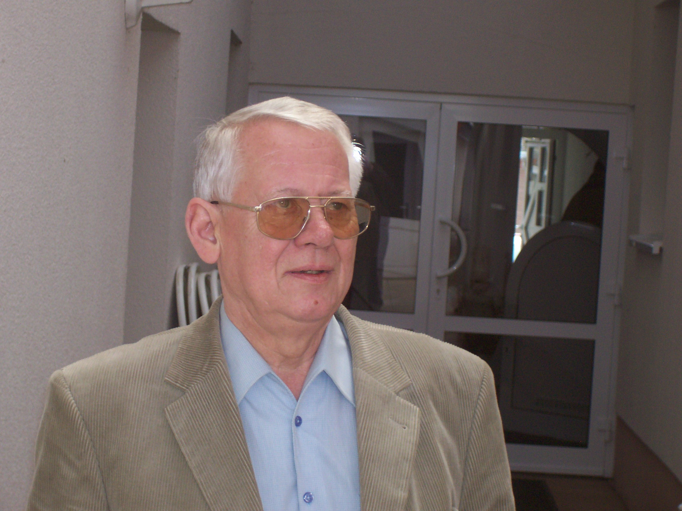 Manfred Zucker at the XVIII. Saxonian congress/meeting of chess composition in Döbeln 2008